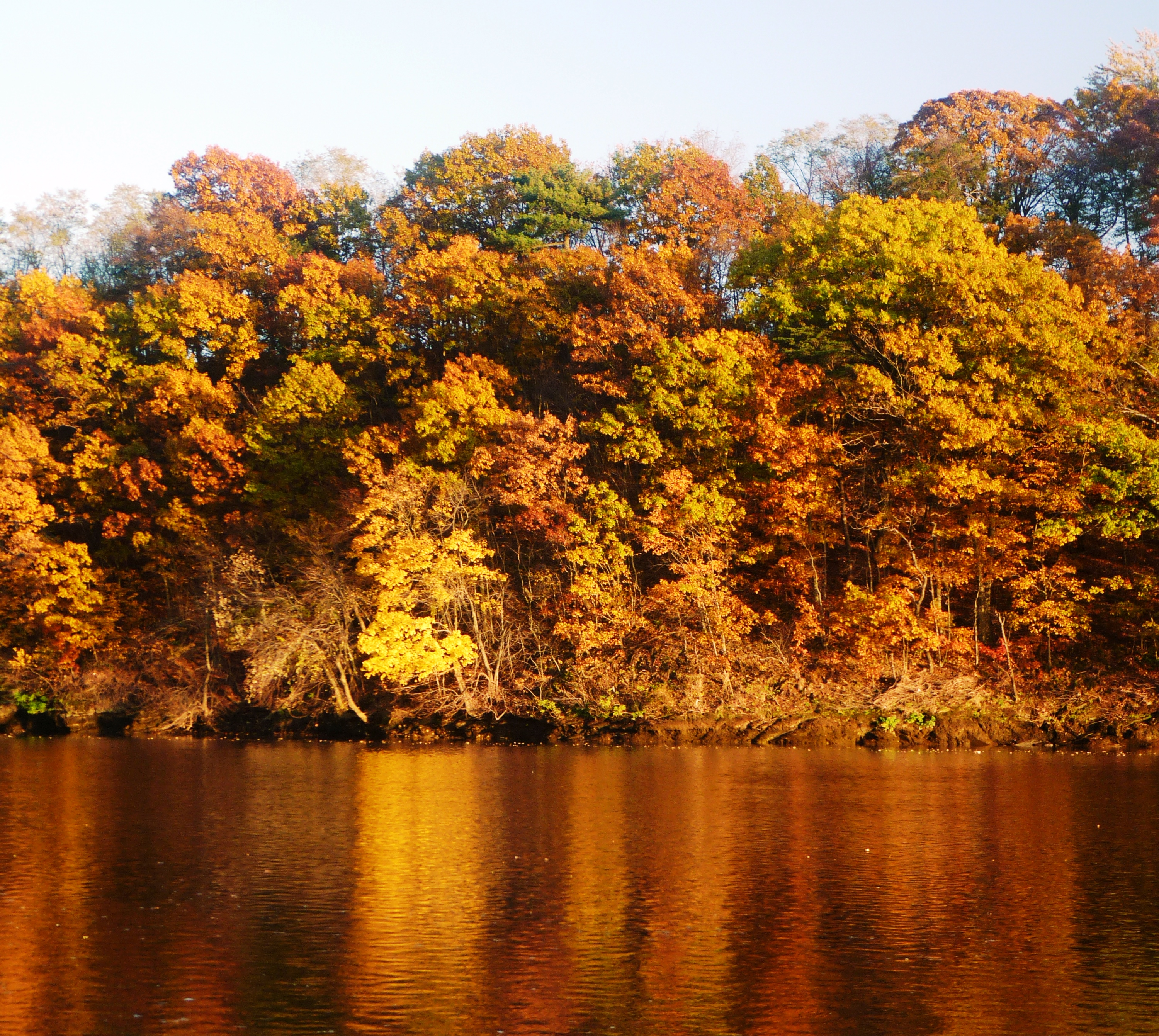 Raritan River in Rutgers